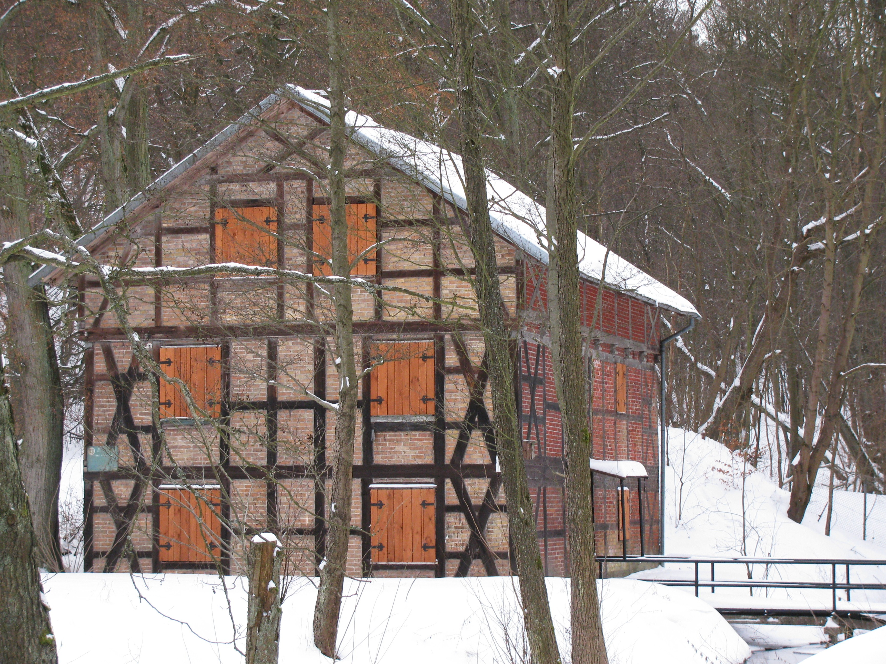 The Water Mill in Gdańsk Oliwa.